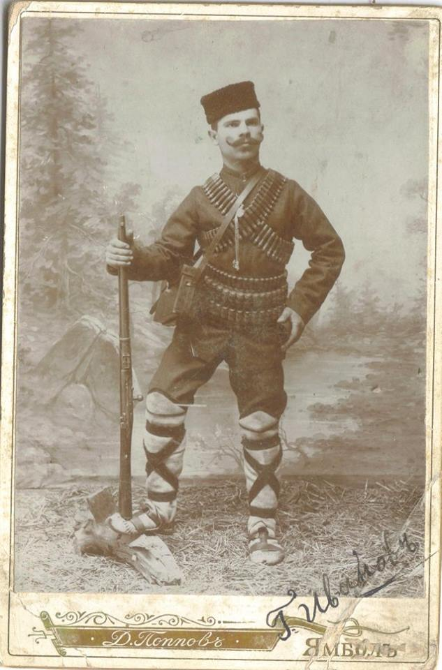 IMARO revolutionary Gavril Ivanov from Pehchevo.